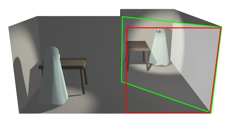 Illustration of the Pepper's Ghost illusion. Created by Wapcaplet in Blender.